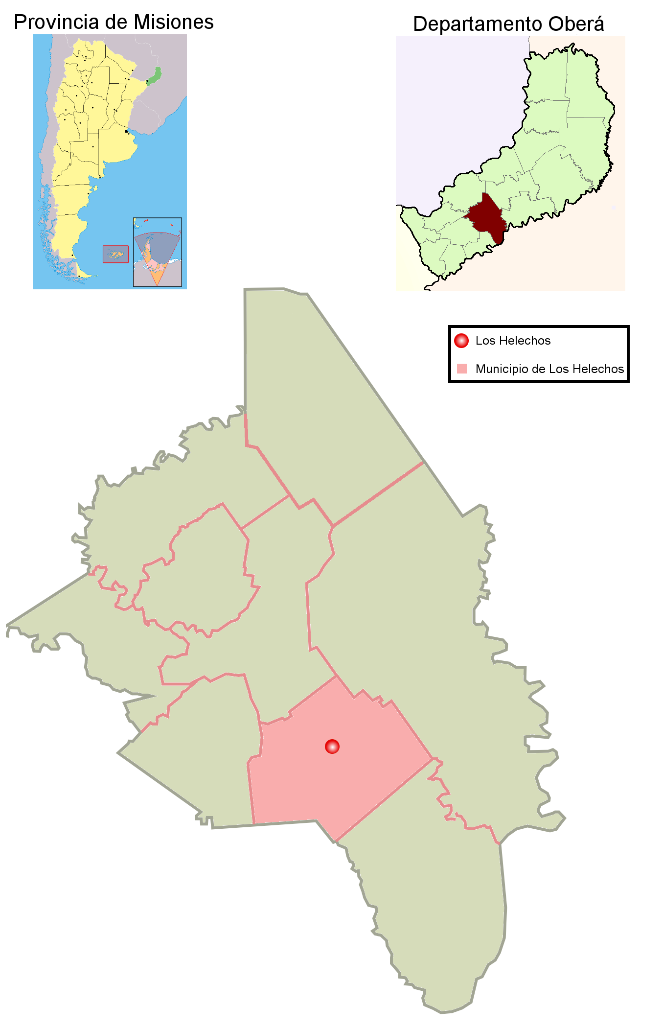 A map showing municipio of Los Helechos in Oberá departament, Misiones province, Argentina. Also shows Los Helechos town location. Created with GIMP.